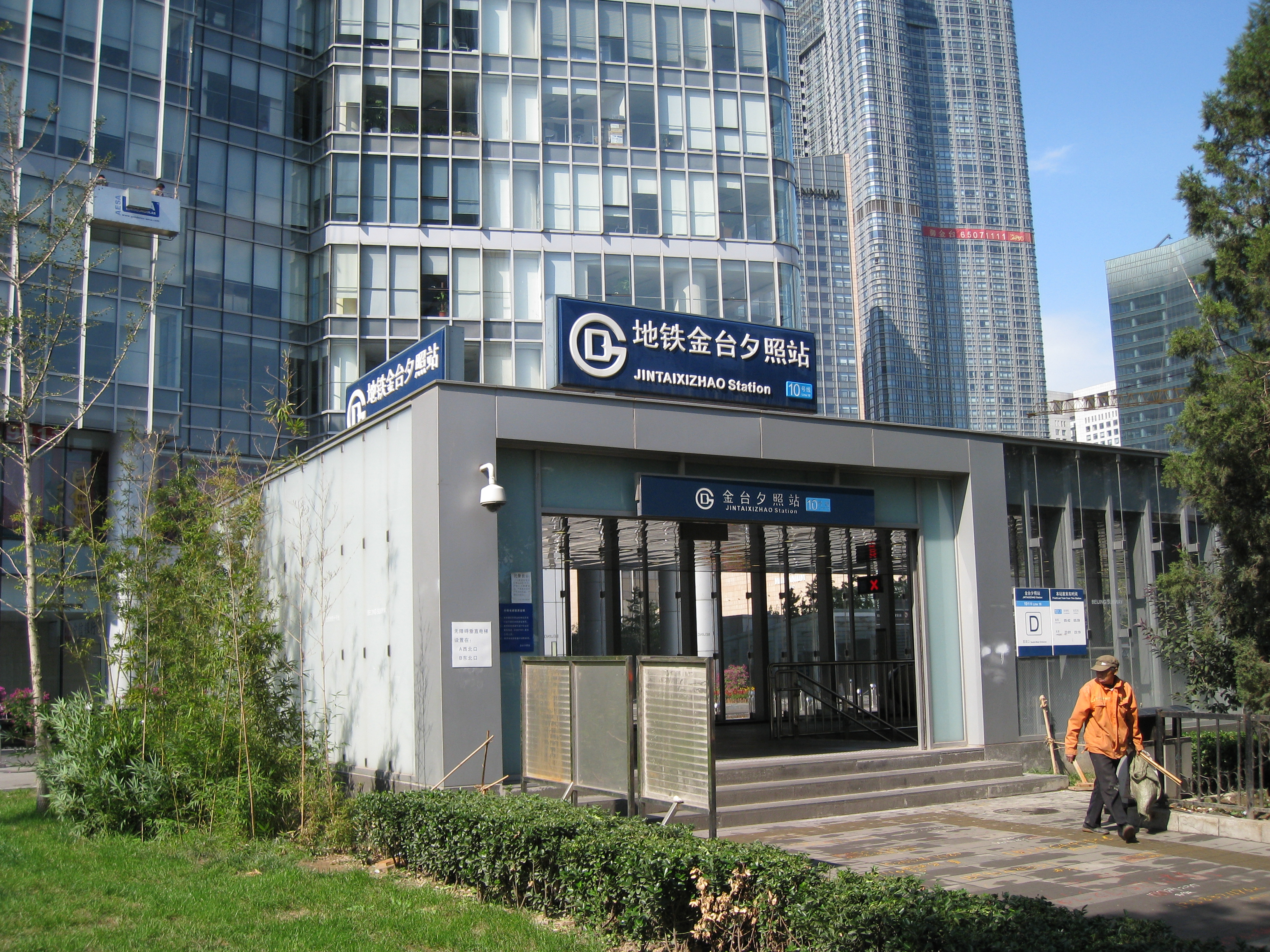 The D entrance of Jintaixizhao station of Beijing Subway.